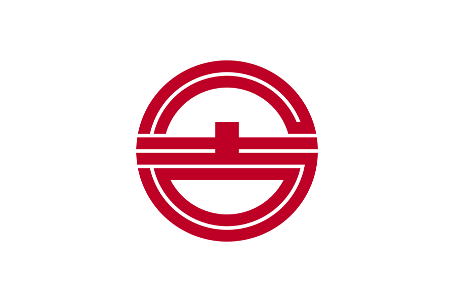 Flag of Kurayoshi, Tottori